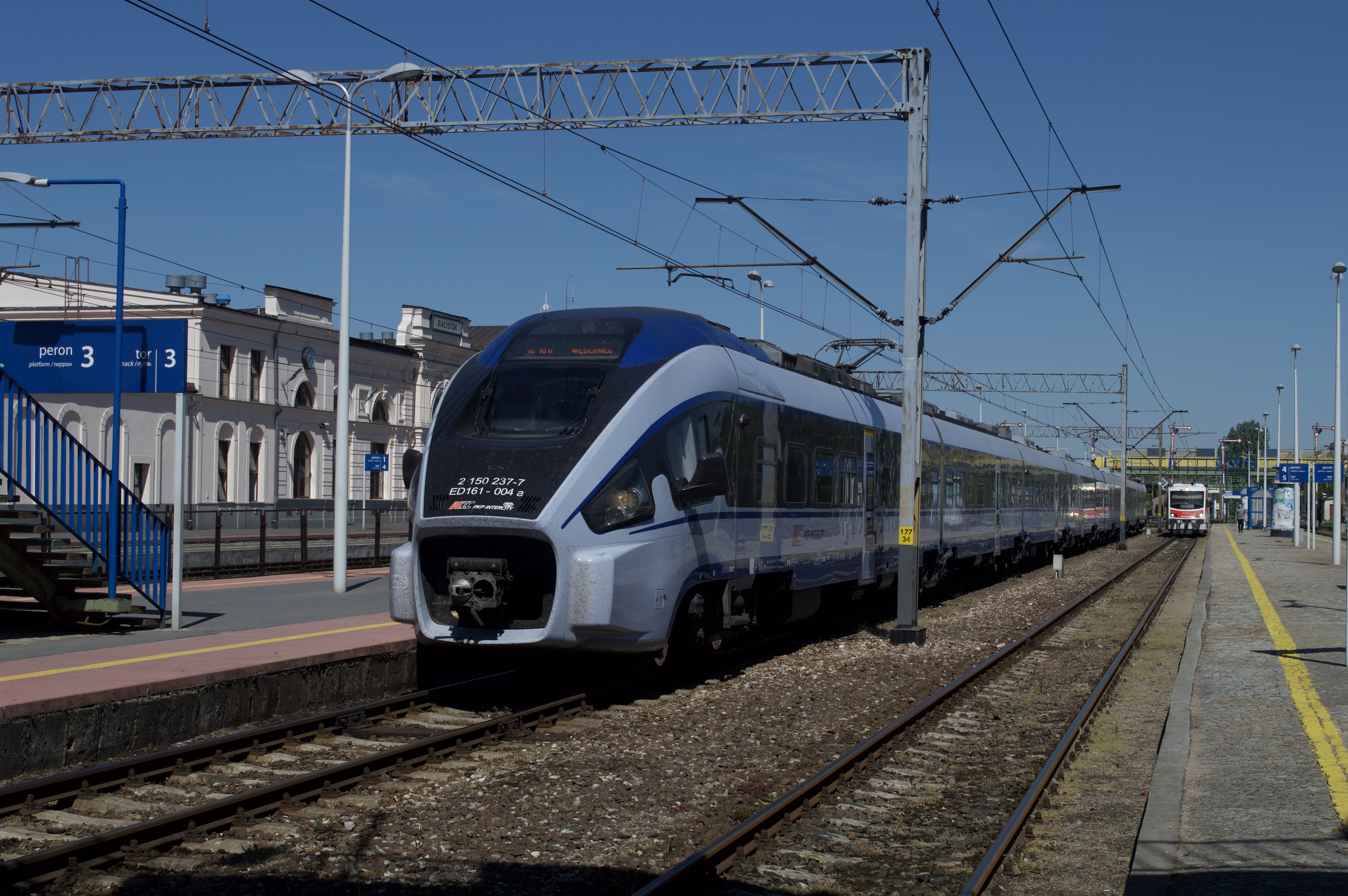 PKP InterCity fixed formation electric sets are now commonplace in Poland. One such version is the 8-coach ED161 seen here at Białystok on 7 May 2018 prior to departure with train IC1617 "Konopnicka", 13:53 Białystok to Węgliniec.